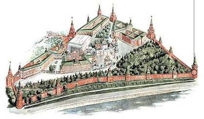 Overview map of the Moscow Kremlin. Location of Beklemishevskaya Tower marked.